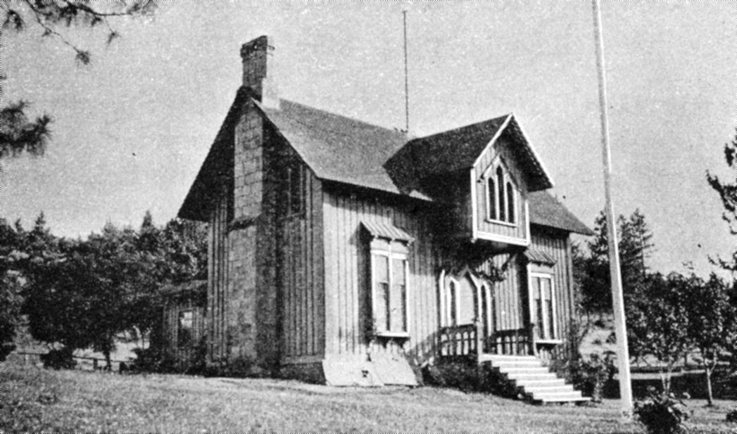 The Surgeon's Quarters at Fort Dalles, The Dalles, Oregon, United States in the early 20th century. This is the only surviving remnant of Fort Dalles, and is today listed on the US National Register of Historic Places.